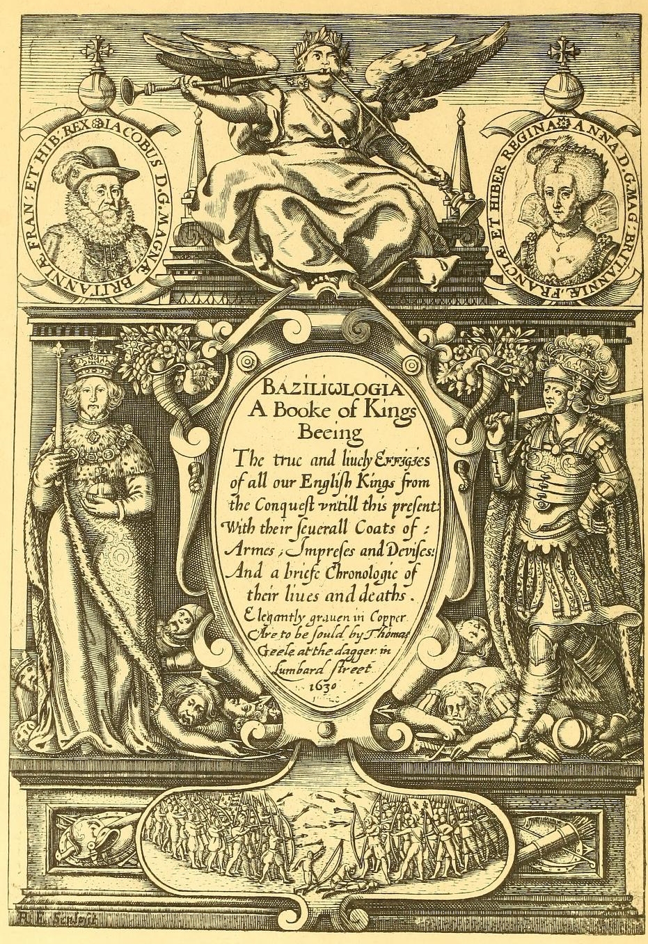 Title page of Henry Holland, Baziliologia, 1630 issue, from 1913 edition